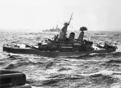 The Royal Navy frigate HMS Euryalus (F15) in the Bay of Biscay during joint operations with the U.S. Navy aircraft carrier USS Franklin D. Roosevelt (CVA-42) in 1972.